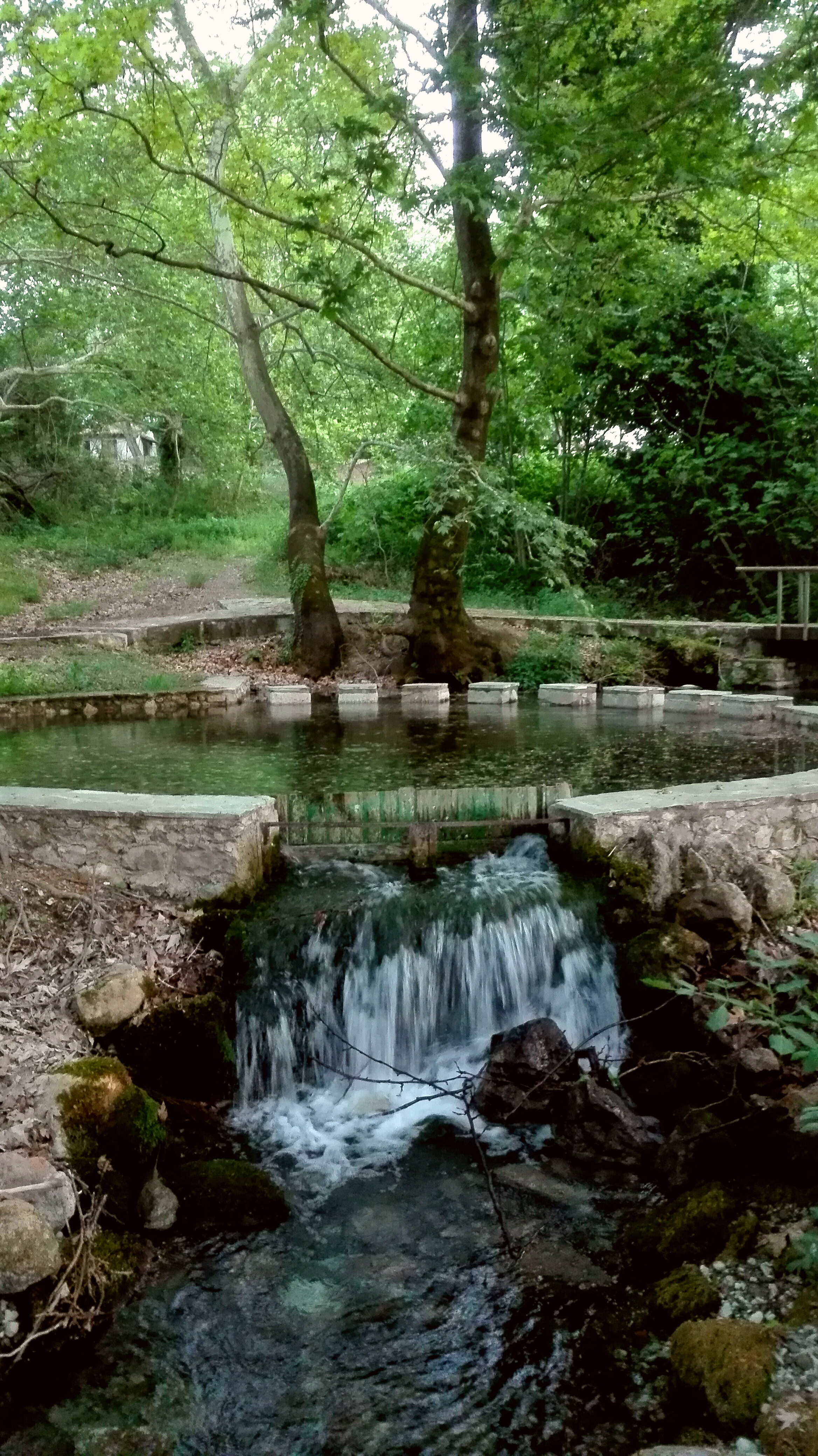 This is a photography of Natura 2000 protected area with ID GR2440002